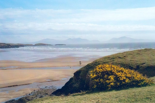 Aberffraw Bay The mouth of the Afon Ffraw where it meets the sea at Traeth Mawr.